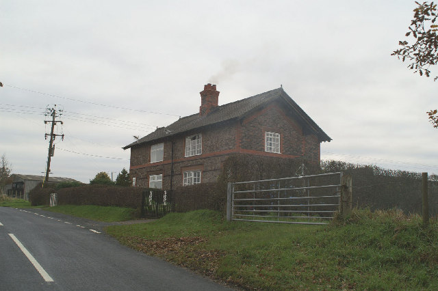 Cosy cottage.